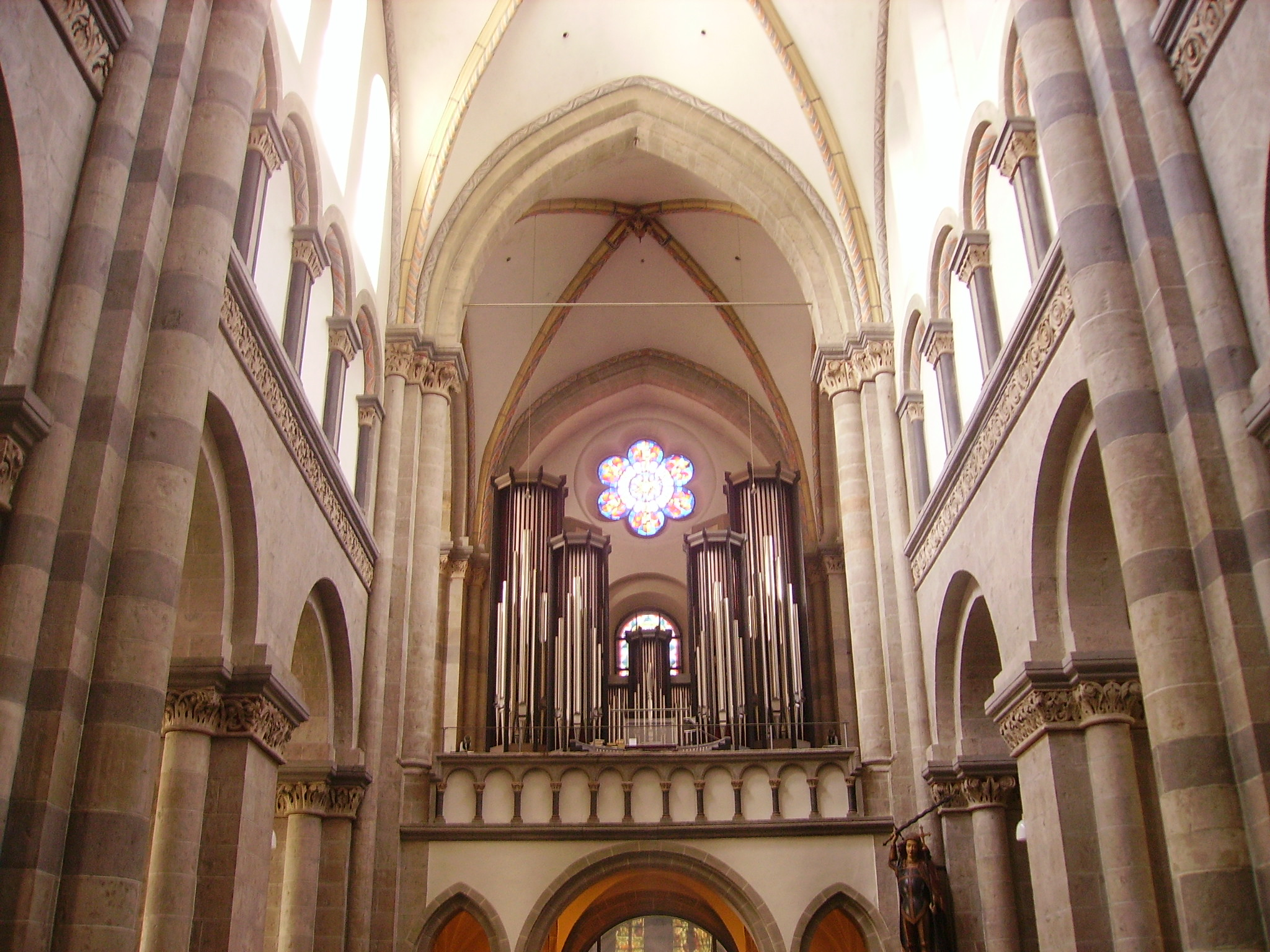 Organ of the catholic Church St. Andrew, Cologne